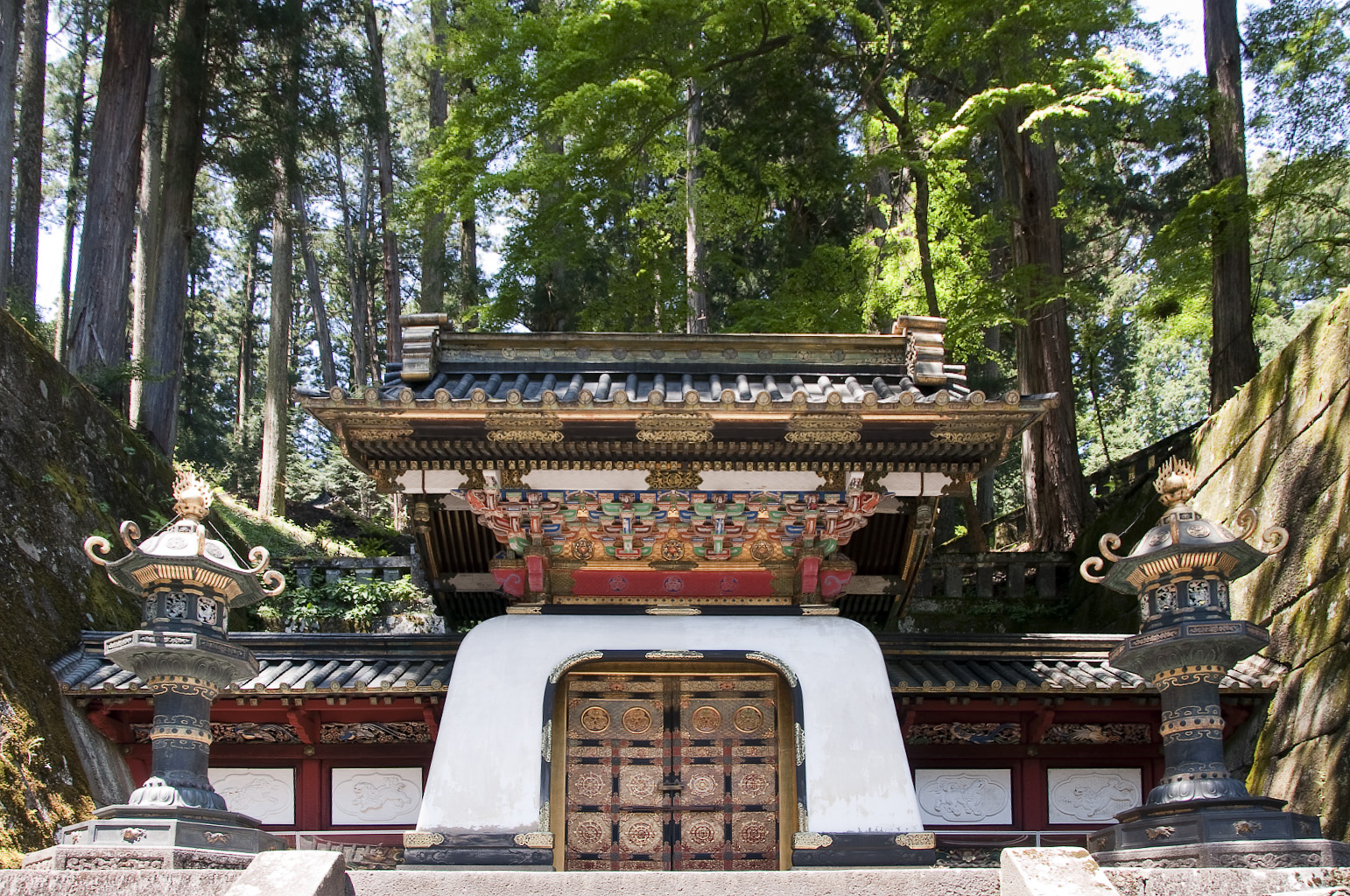 This gate is the Kōka-mon at Taiyū-in, Rinnō-ji, Nikkō, Tochigi Prefecture, Japan. 日光市輪王寺大猷院霊廟皇嘉門